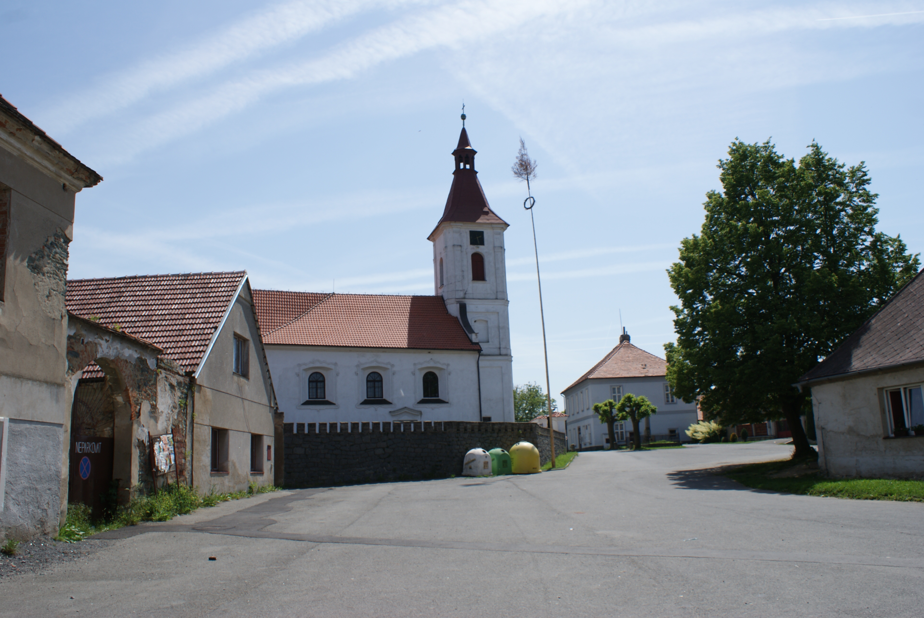 Chraštice, a village in Příbram district, Czech Republic. Church on the village common. Česky: Chraštice, okres Příbram, kostel na návsi